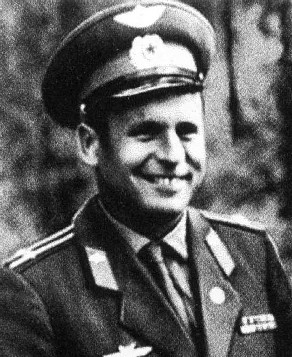 cosmonaut Viktor Gorbatko, cropped from Image:GPN-2002-000180.jpg